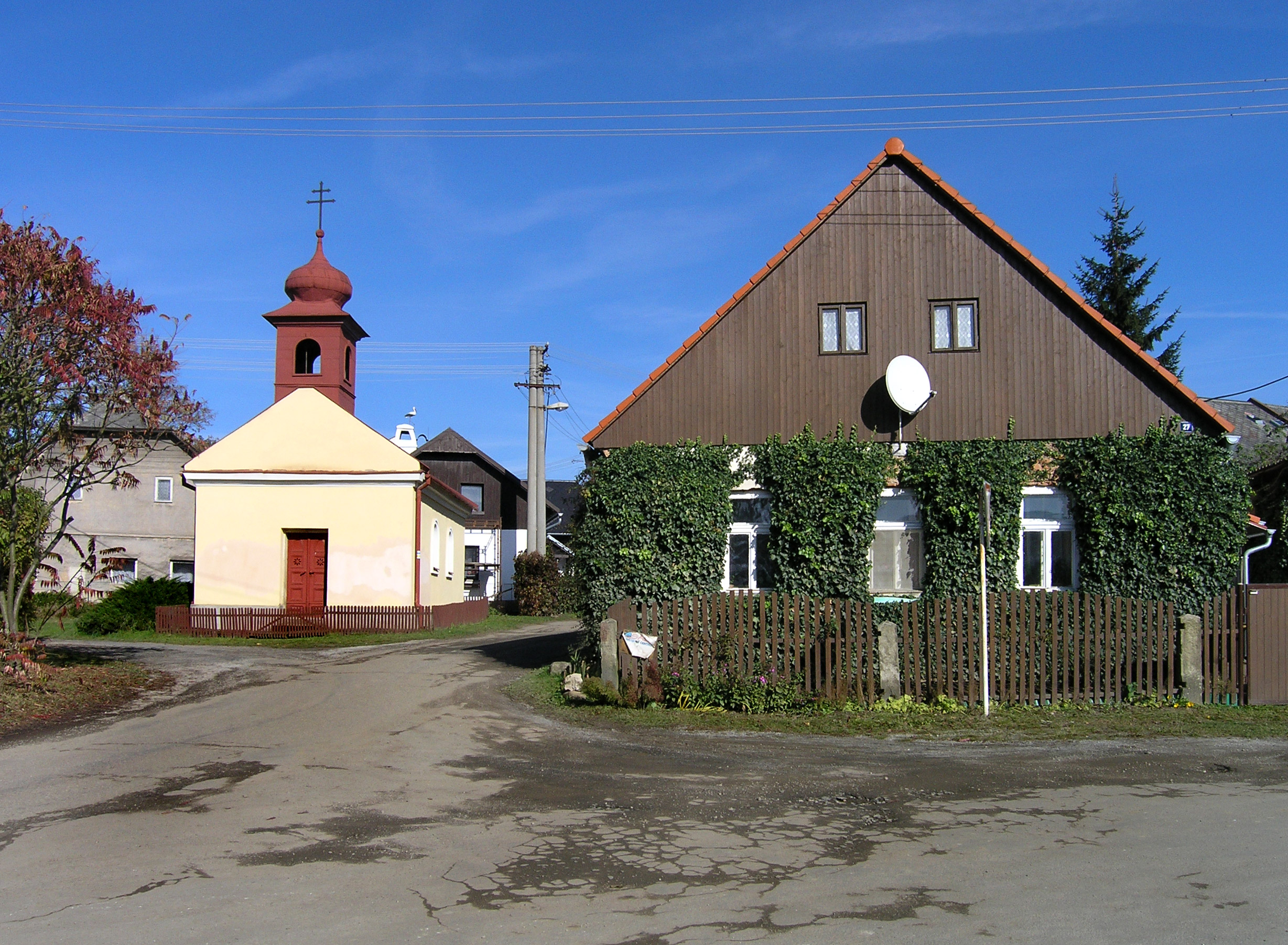 Common in Zborná, part of Jihlava, Czech Republic